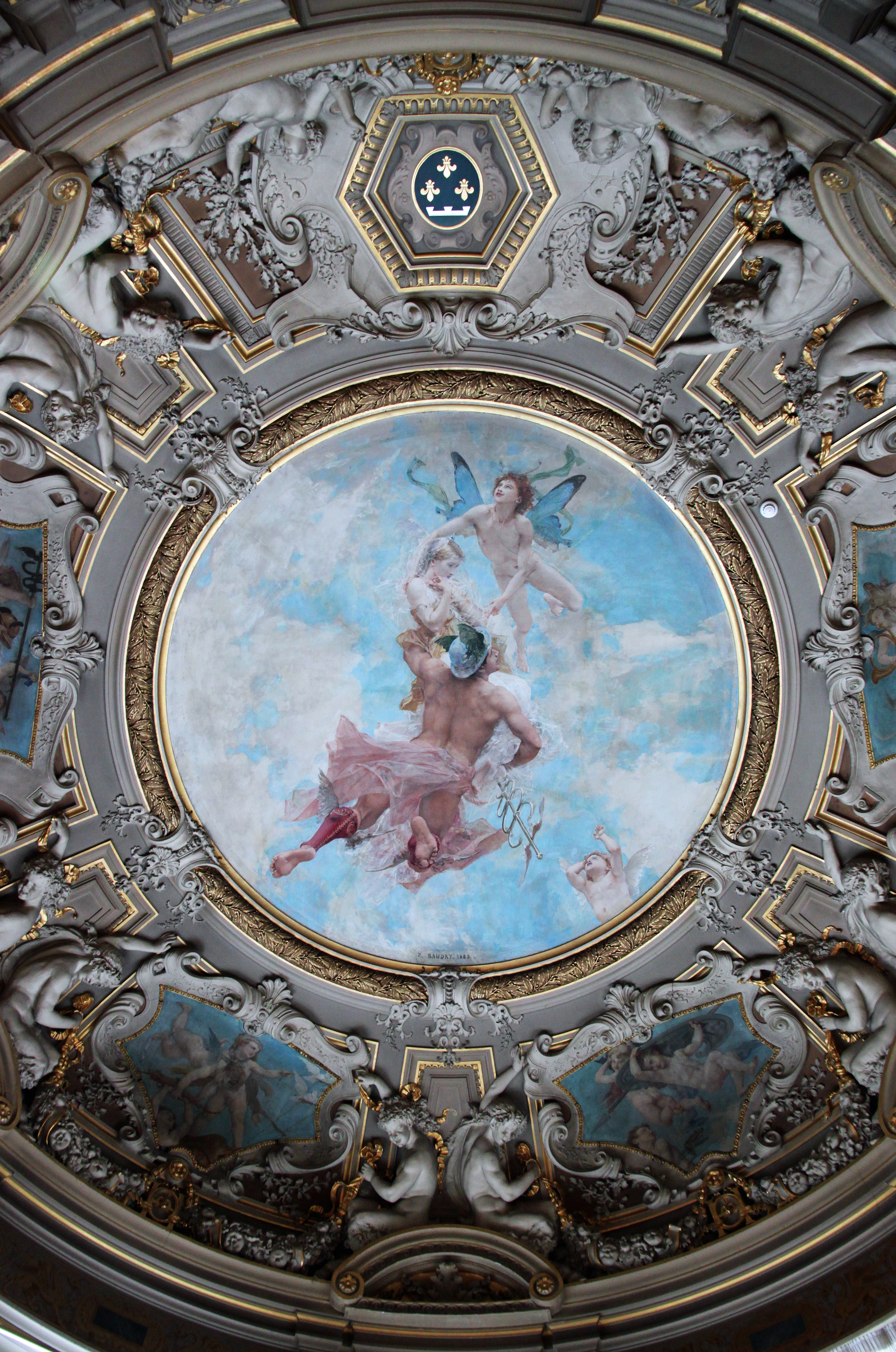 L'enlèvement de Psyché, 1885, by Paul Baudry (1828-1886). Ceiling of the rotunda from the great gallery, Château de Chantilly.